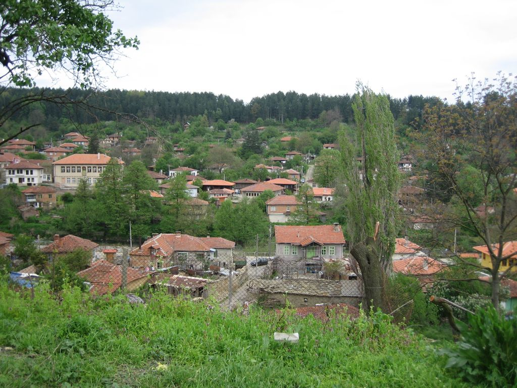 View towards Galata and the Upper neighbourhood, Gradets.